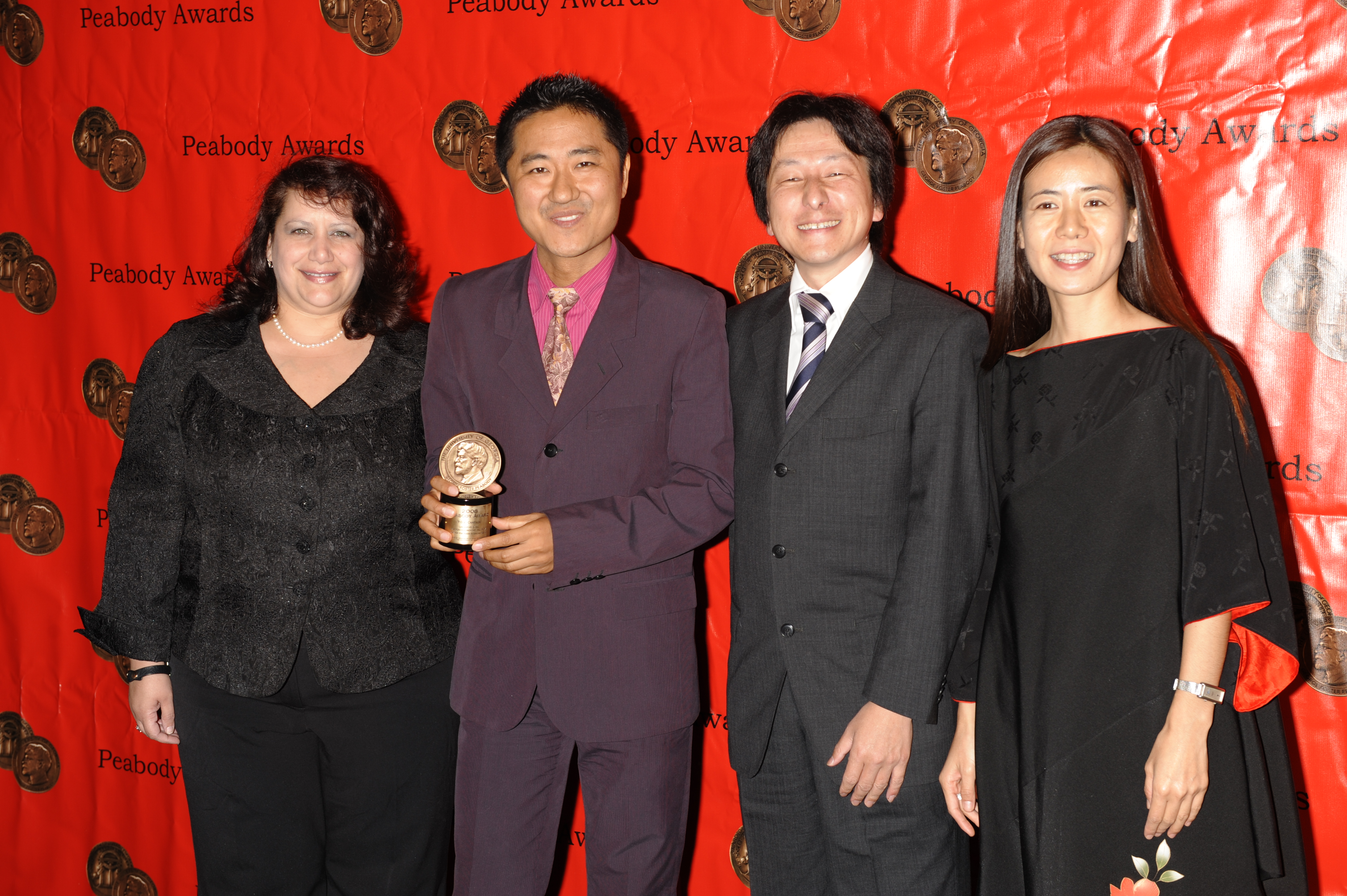 PHOTO CREDIT: ANDERS KRUSBERG / PEABODY AWARDS Kazuhiro Soda and Kazuhiko Yamauchi 68th Annual Peabody Awards Luncheon Waldorf=Astoria Hotel New York, NY USA May 18, 2009